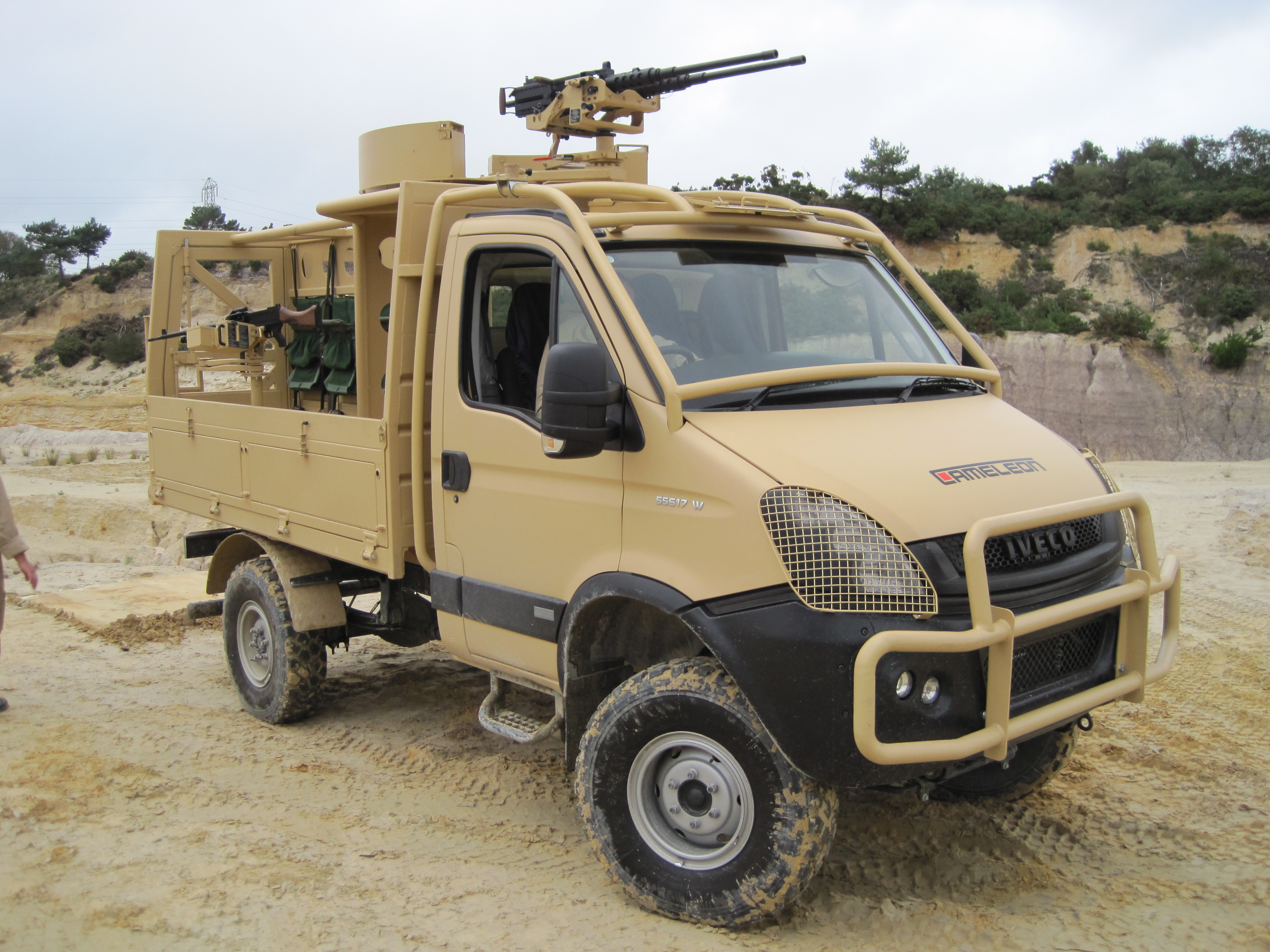 OVIK CAMELEON IV440 with Patrol Module - Integrated twin .50 Calibre HMG and two 7.62mm FN MAG GPMGs based on Iveco Daily 55S17 W light truck.